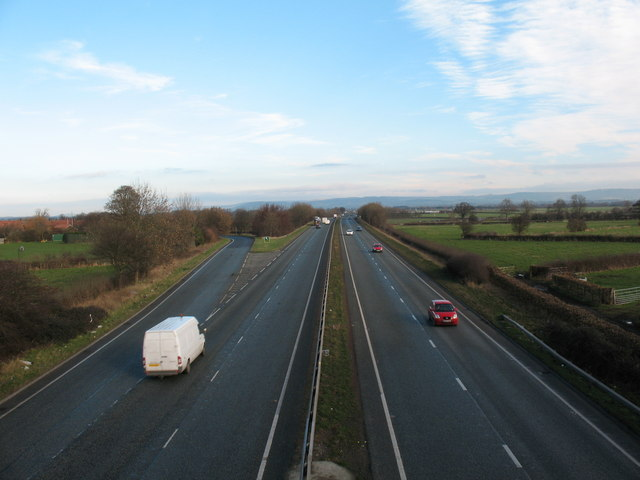 The A168 at Topcliffe Part of the Topcliffe bypass constructed in the early 1970's. The dual carriageway links the A1[M] with the A19 heading for Teesside and Sunderland.